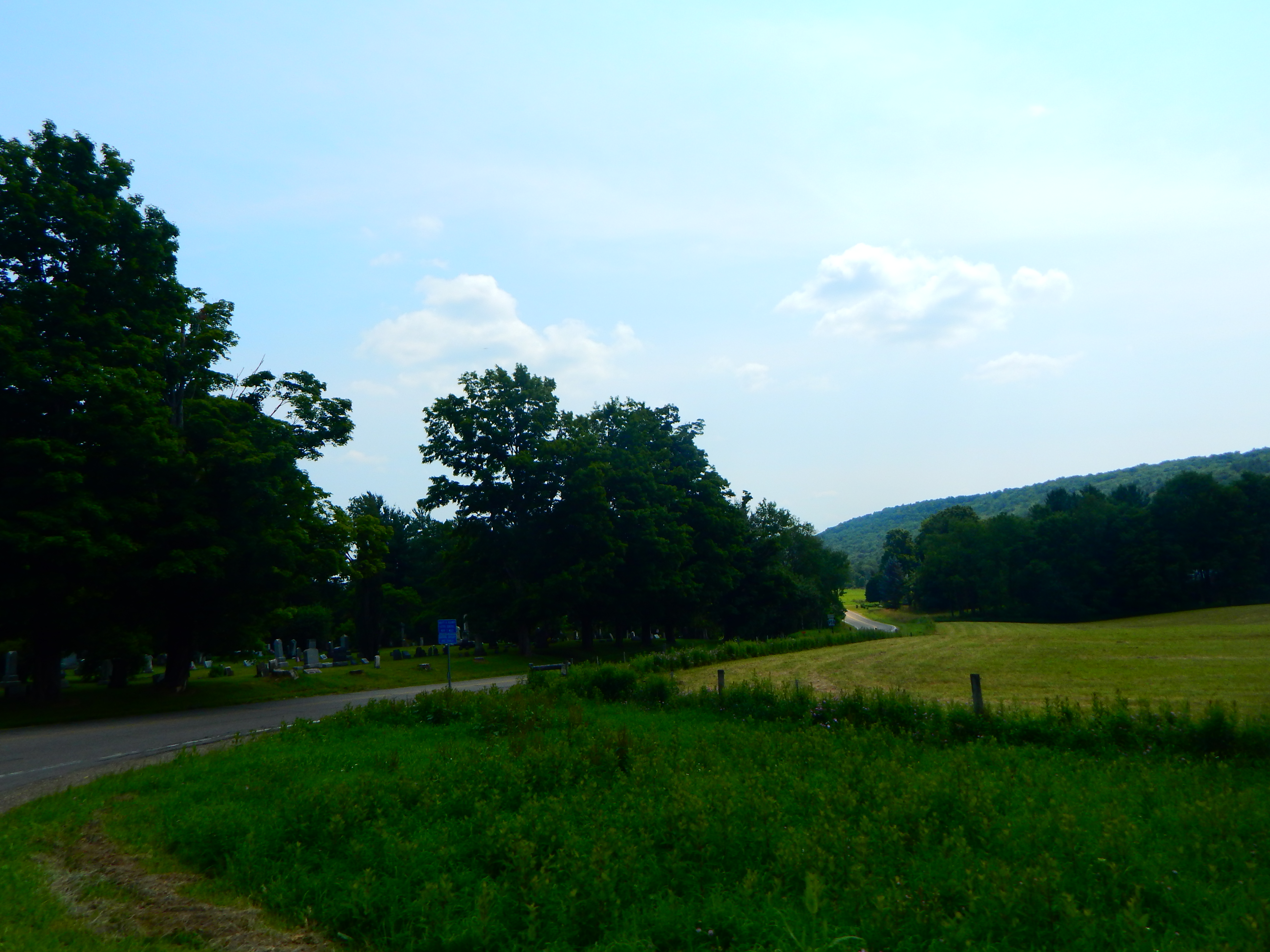 Route 958 heading south from the road to Bear Lake.